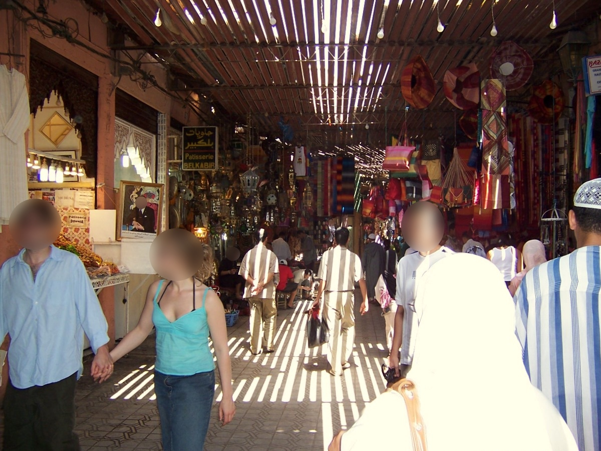 Marrakech souq